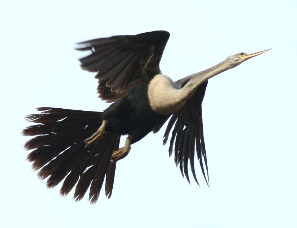 Anhinga anhinga in flight, Bivens Arm Lake, Gainesville, Florida